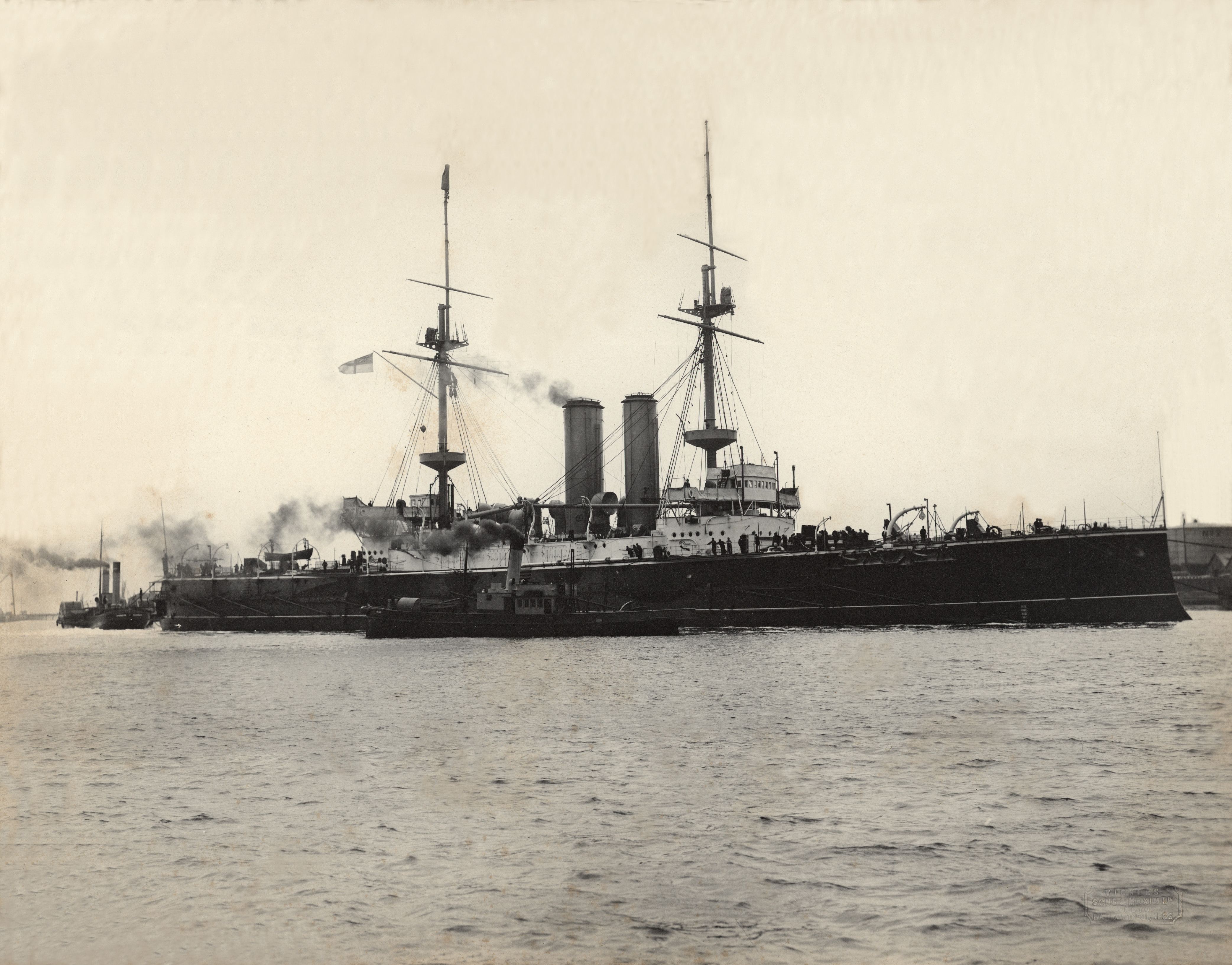 Format: Fotopositiv Dato / Date: ca. 1899 Fotograf / Photographer: Ukjent Sted / Place: Barrow-in-Furness, England? Wikipedia: HMS Vengeance (1899) Wikipedia: Vickers Eier / Owner Institution: Trondheim byarkiv, The Municipal Archives of Trondheim Arkivreferanse / Archive reference: Tor.H44.L01.F9328